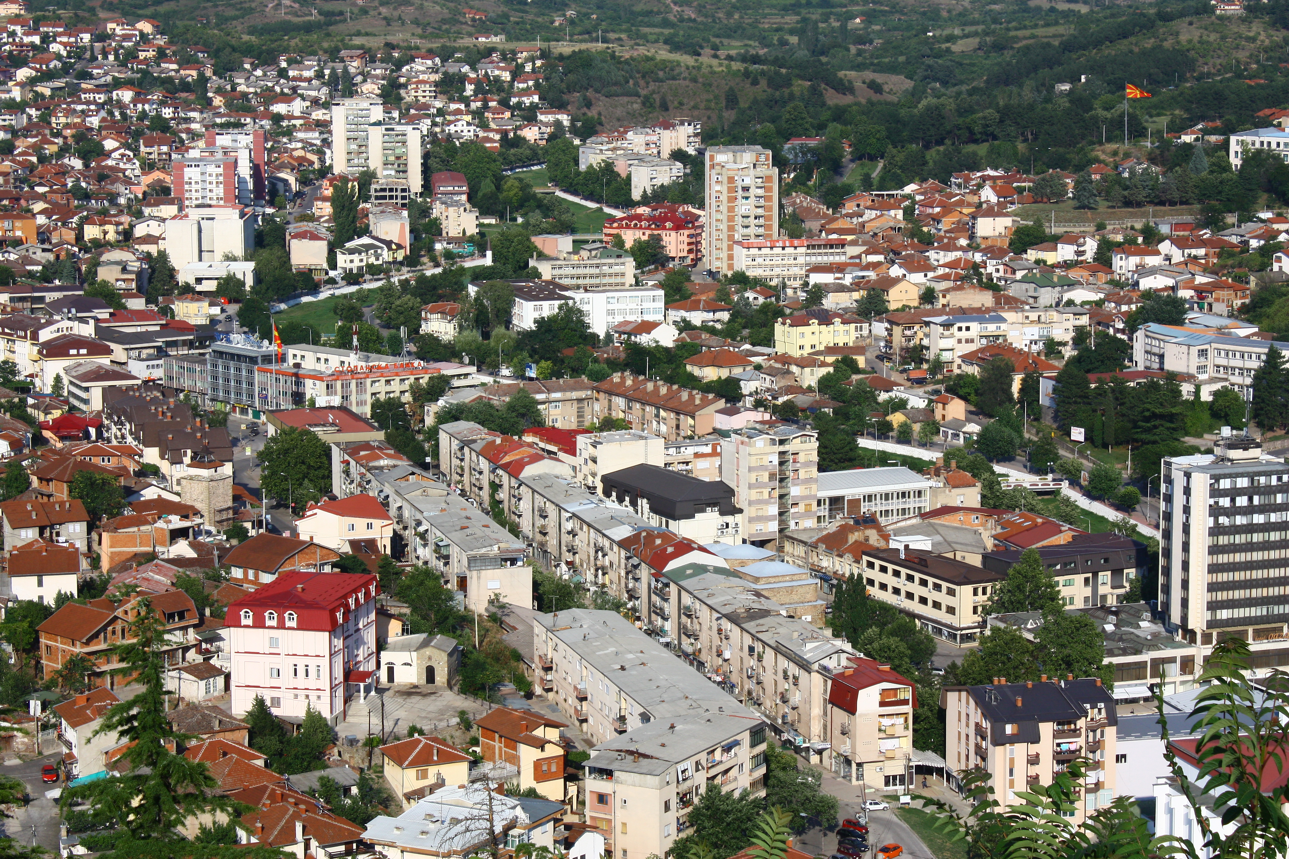 Štip, Macedonia